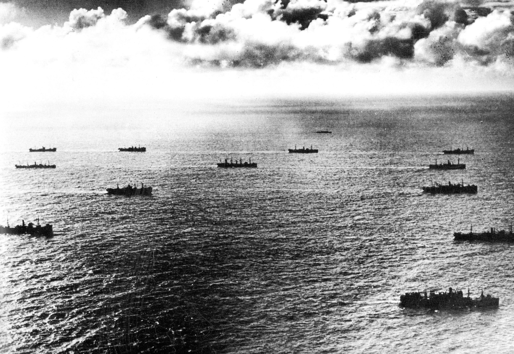 Cargo ships cross the Atlantic in a convoy.